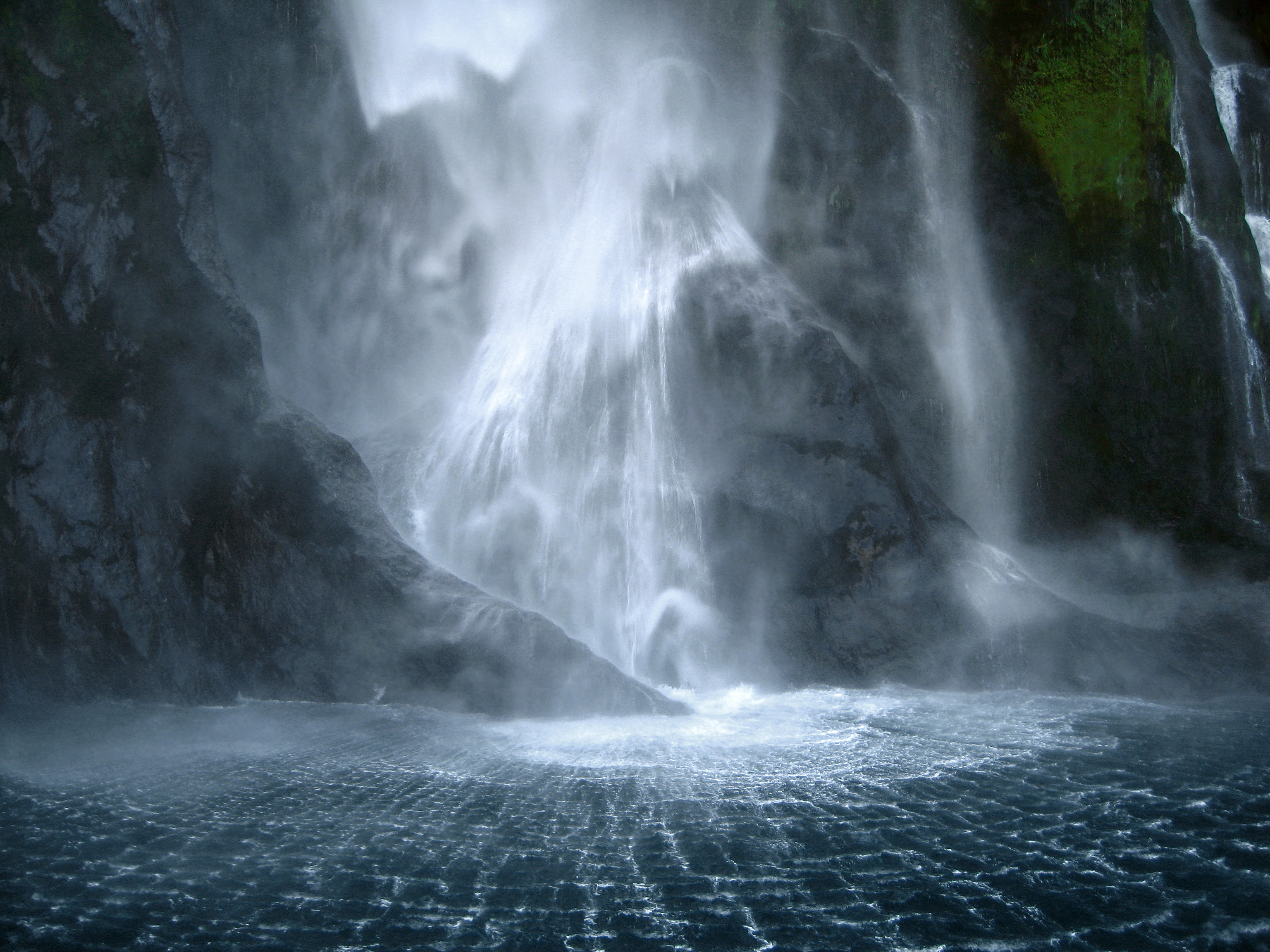 Stirling Falls, Milford Sound, New Zealand.